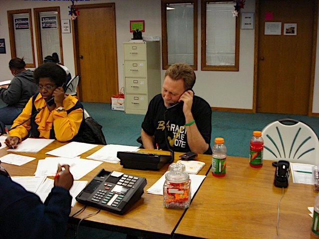 Bob Wood in Alabama.